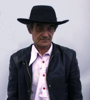 Ion Bîrlădeanu